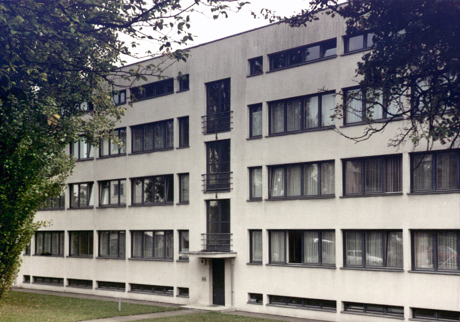 Stuttgart-Weissenhof, Germany House by Ludwig Mies van der Rohe, 1927. International style. analogue photography taken by shaqspeare, September 2001, scanned 2005 GFDL